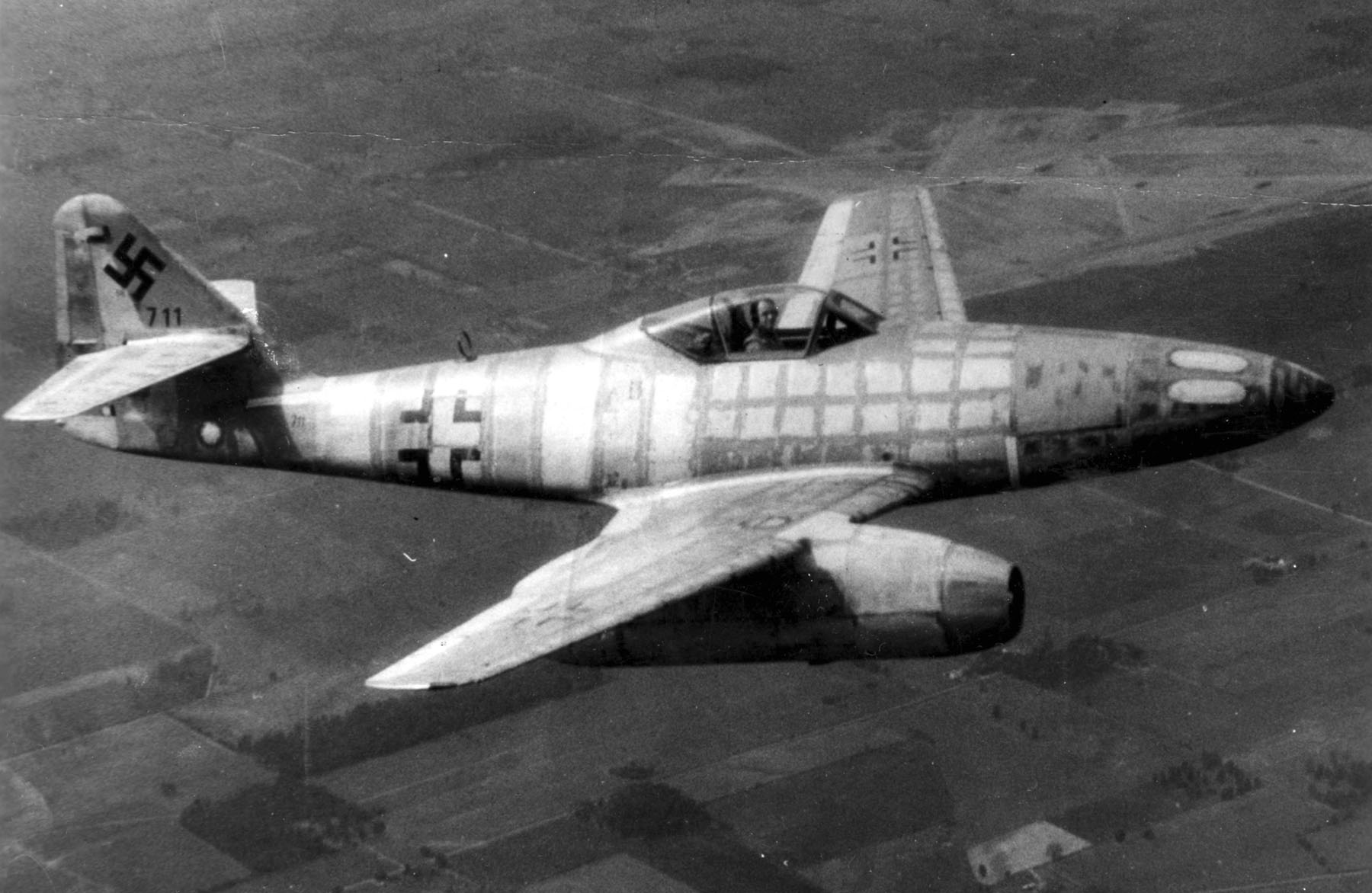 Messerschmitt Me 262 Werk-Nr. 111711, seen here post-war during a test flight in the USA. It was the first intact Me 262 to fall into Allied hands on March 31st 1945.